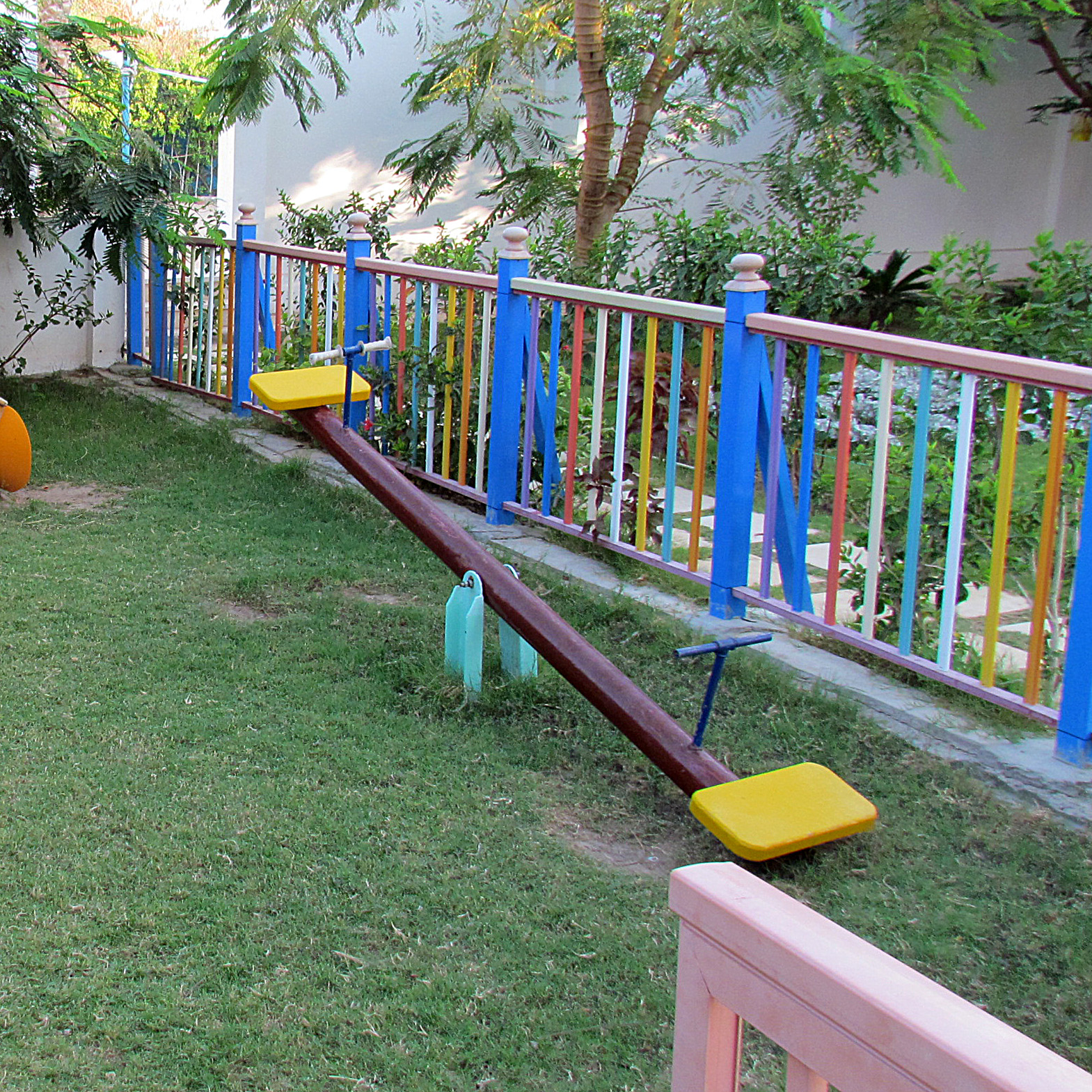 Seesaw in Hurghada